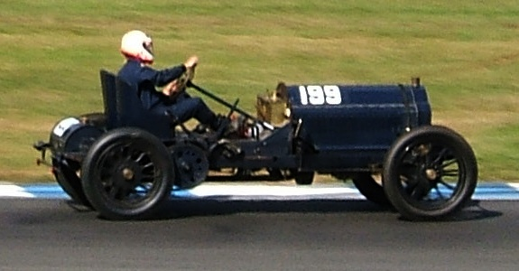 John Brydon hustles his 1905 Lorraine Dietrich CR2 through the Craner Curves, during the VSCC SeeRed race meeting, Donington Park, September 2007.